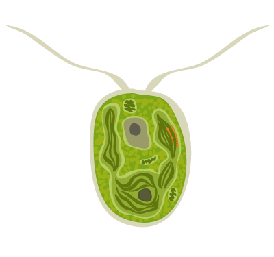 chlamydomonas